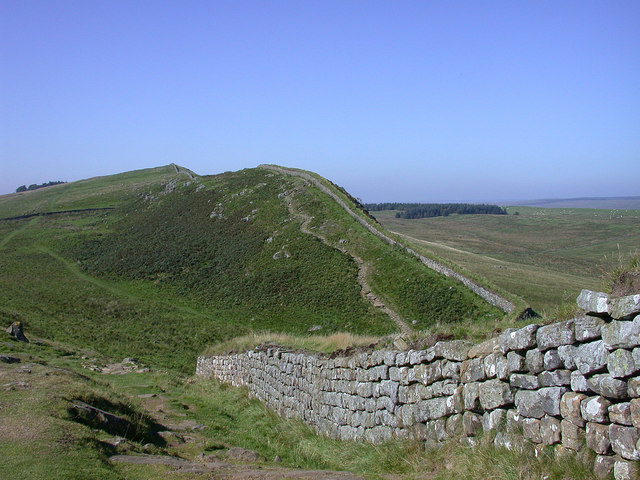 Hadrian's Wall near Milecastle 37. Looking west, the reverse view of 730410